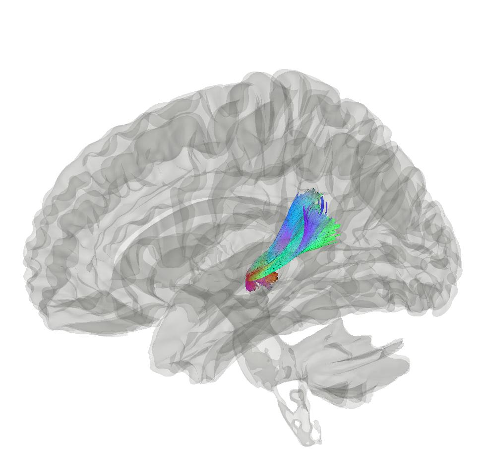 Tractography showing acoustic radiation on a population-averaged template